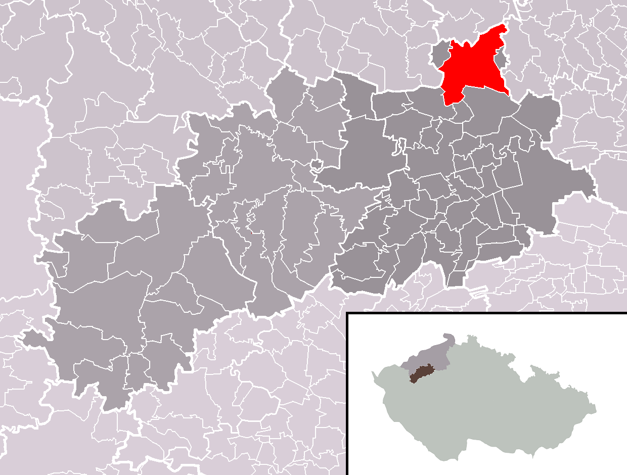 Location of Libčeves municipality within Louny District and administrative area of Louny as a Municipality with Extended Competence.